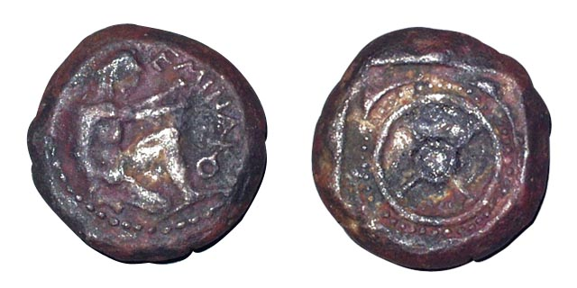 Olbia. Stater of Eminak. Silver. V BC. Rare coin. Heracles and wheel with dolphins